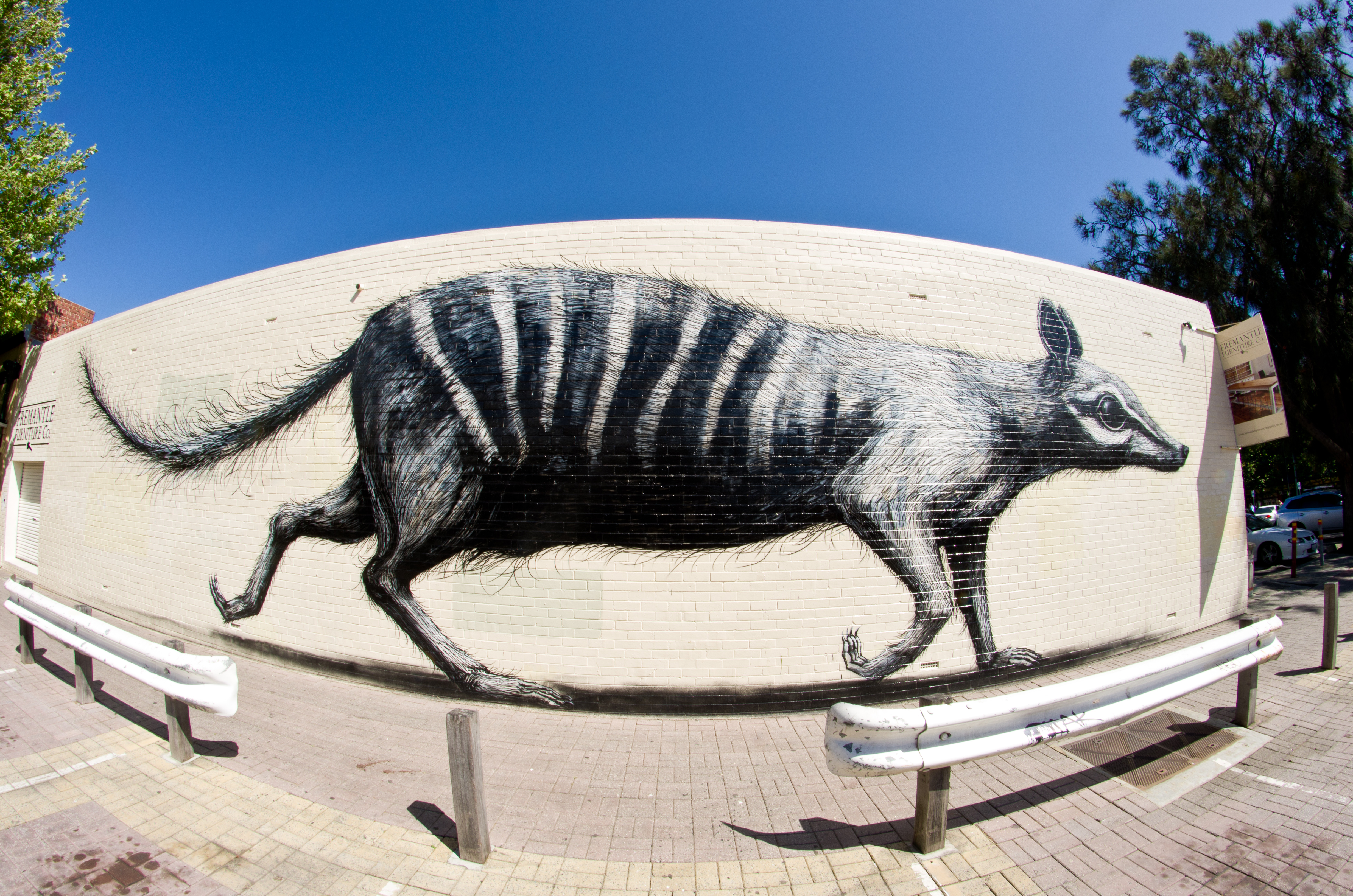 Taken for articles needing images relating to Freopedia's assistance with the Piccolo Exhibition at the Moores Building Oct-Nov 2013 Shanghai building Henderson street, Fremantle with ROA work of a numbat commissioned by the City of Fremantle